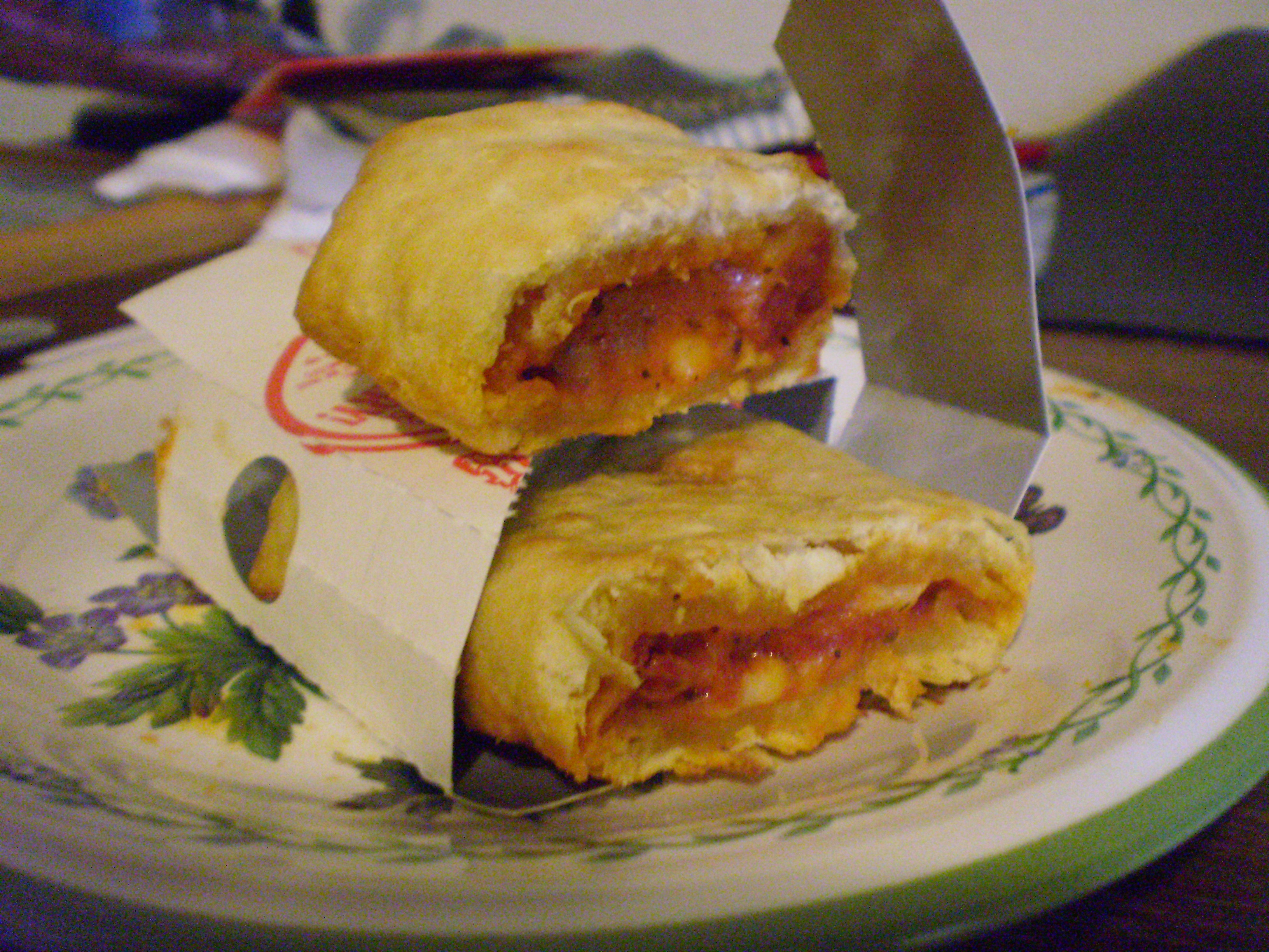 A cooked Hot Pocket - croissant crust pepperoni variety. The microwave susceptor (sleeve) is included with logos obscured.